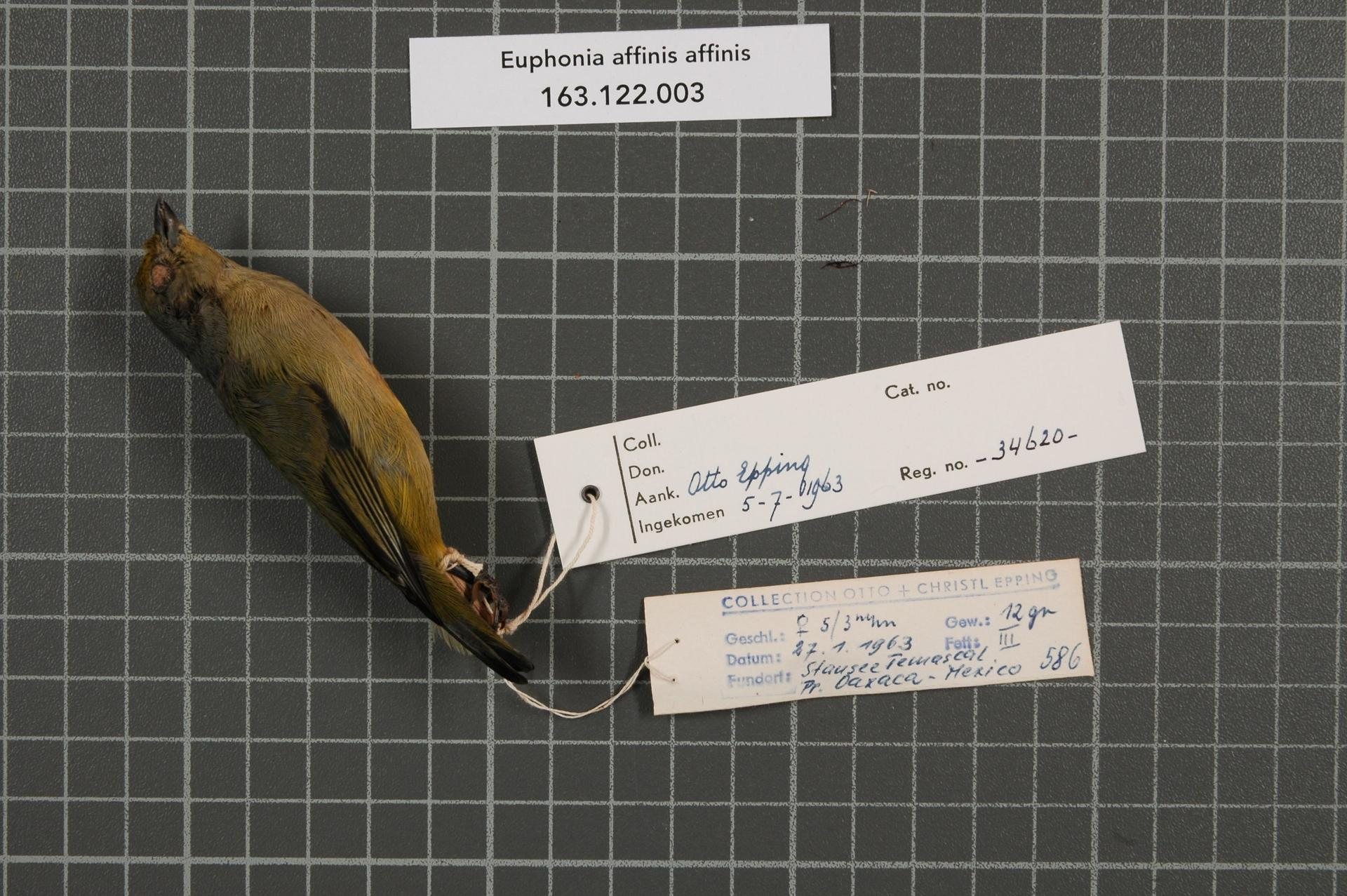 Euphonia affinis affinis (Lesson, 1842)